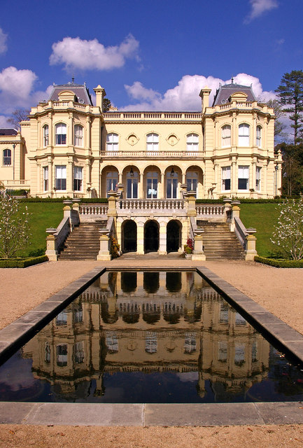 Cherkley Court. Cherkley Court was built c 1870. It was rebuilt in 1893 in the style of a French chateau after fire damage. In 1910 it was bought by William Aitken, the 1st Lord Beaverbrook, soon after he entered parliament. Many famous guests were entertained here by Lord Beaverbrook, including Rudyard Kipling, Harold Macmillan and Winston Churchill. It has been extensively restored by the Beaverbrook Foundation and the gardens are now open to the public, with the house available for private functions. The house is grade II listed - for listing particulars The steps and balustrade are separately listed - The three arches below the balustrade lead into the grotto - see 1257535, 1257537 and 1257541.